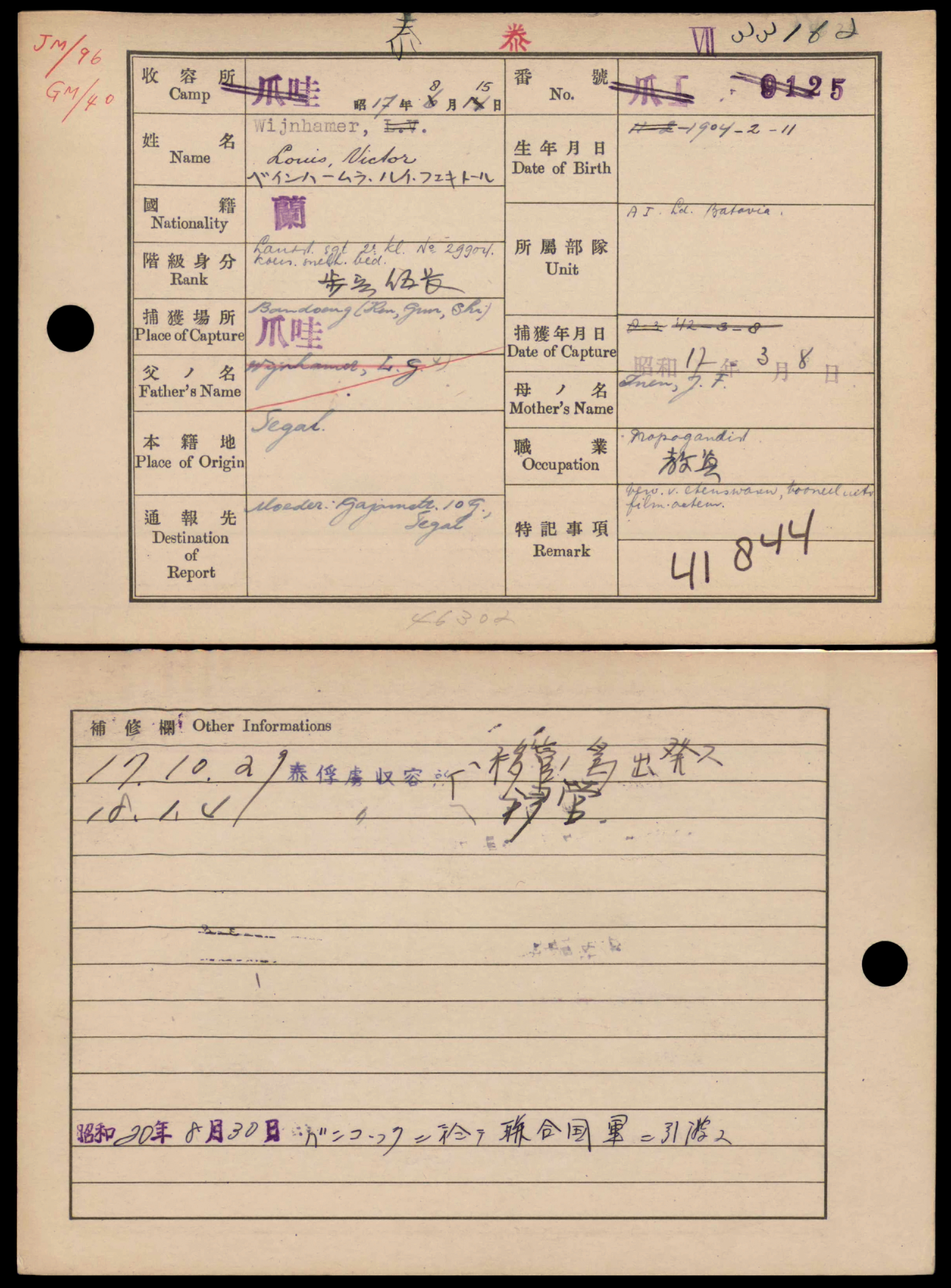 Scan of Pah Wongso's registration card for the Japanese occupation government, March 1942